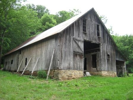 Orphead Duty Barn, Boxley Valley, Arkansas, Buffalo National River, USA